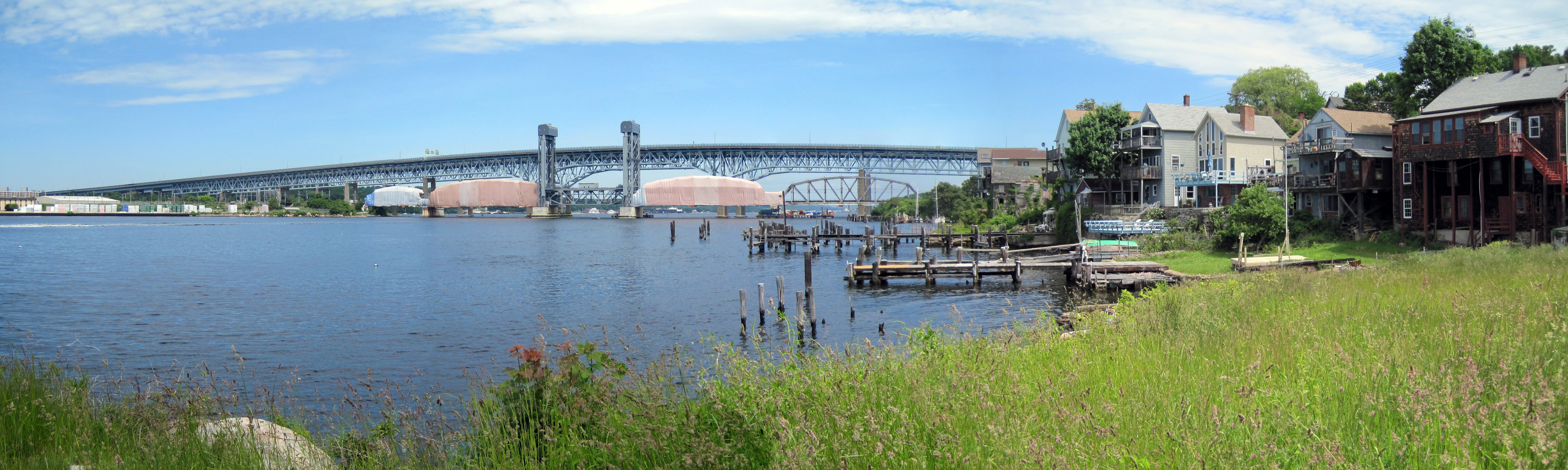 Panoramic view of the Gold Star Bridge as seen from the shores of the Thames River in Groton, CT, looking north.